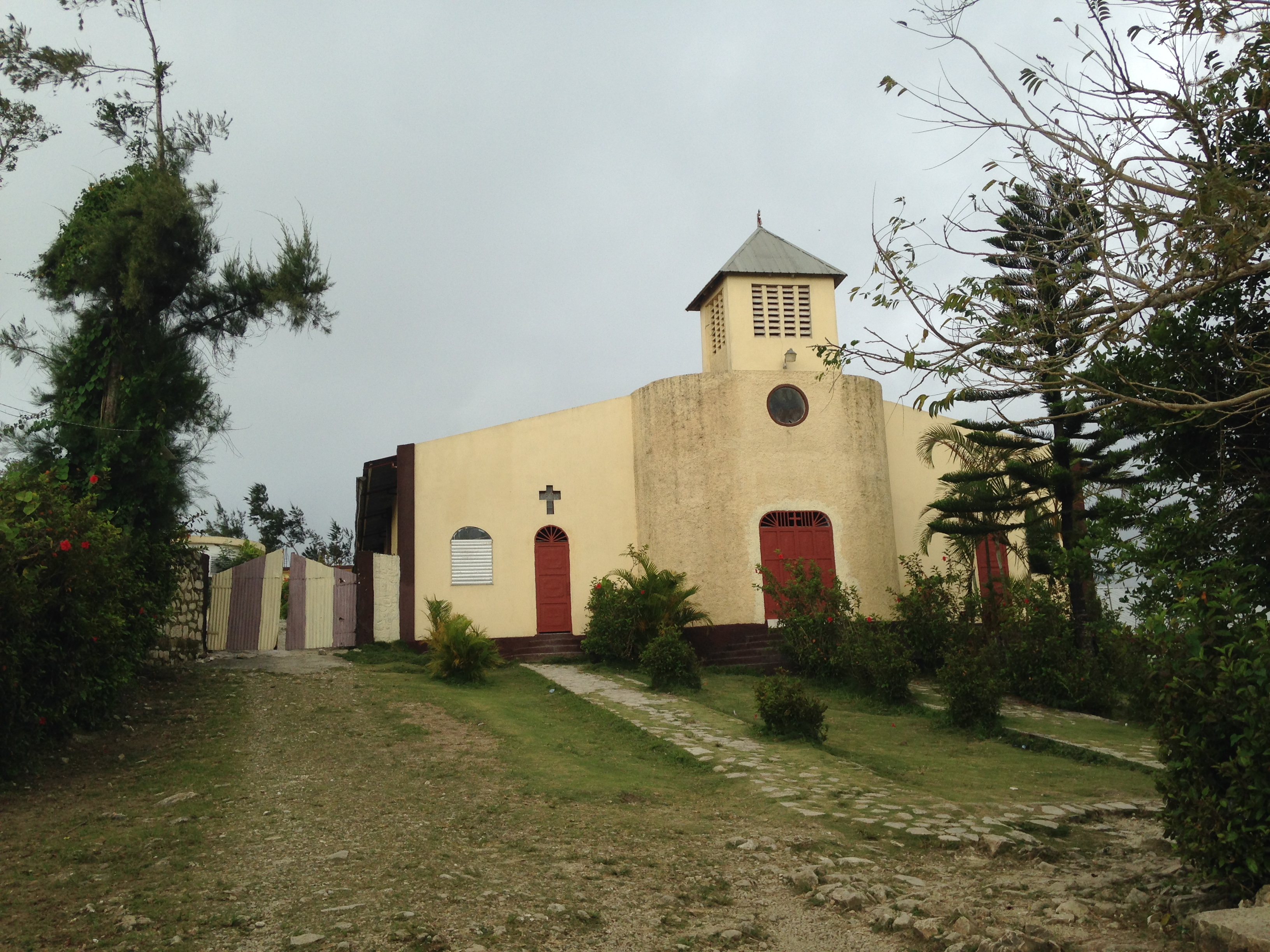 The Catholic Church in Delatte in the municipality (commune) of Petit-Goâve in Haiti.